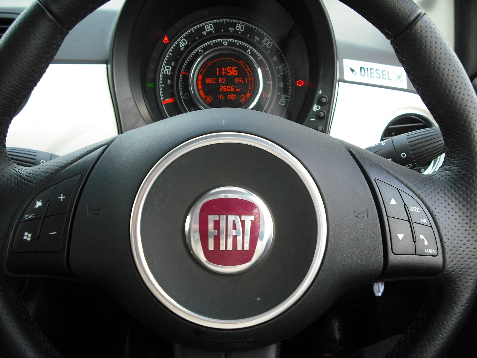 Steering wheel